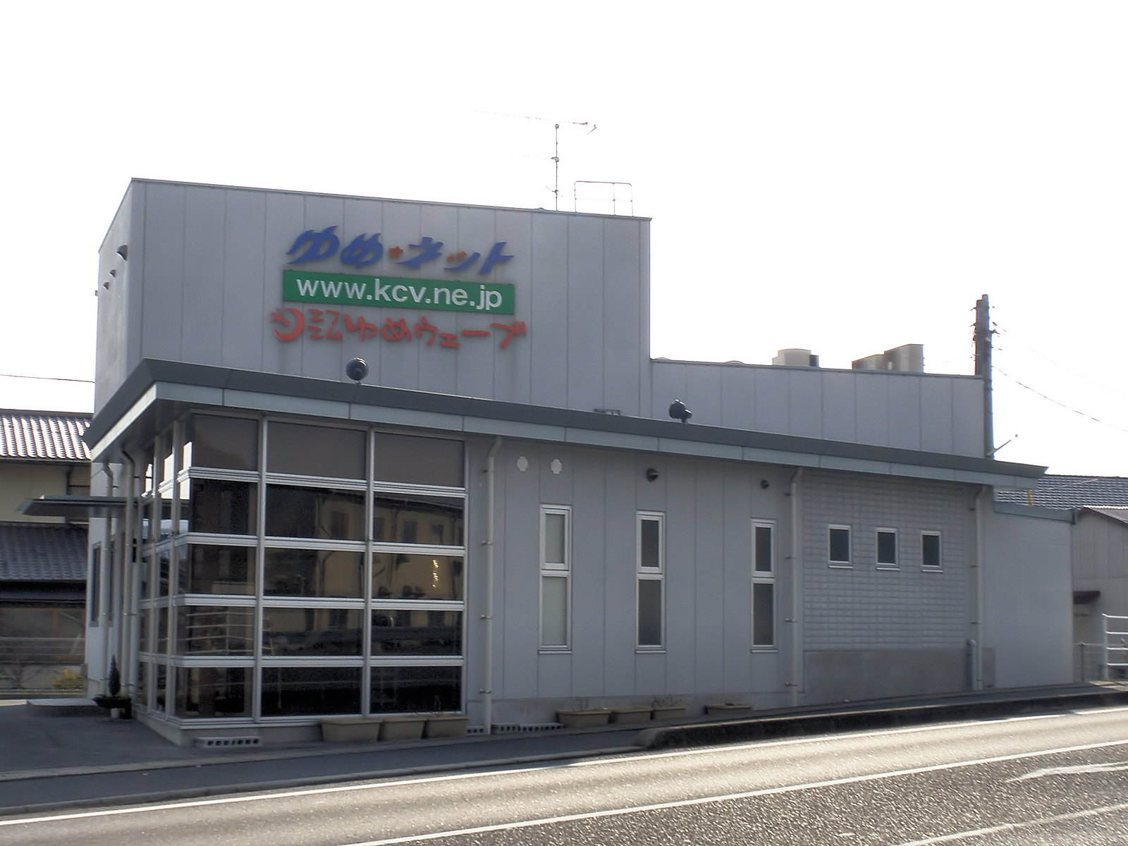 FM YUMEWAVE (Kasaoka Broadcast Asakuchi station), Asakuchi, Okayama.